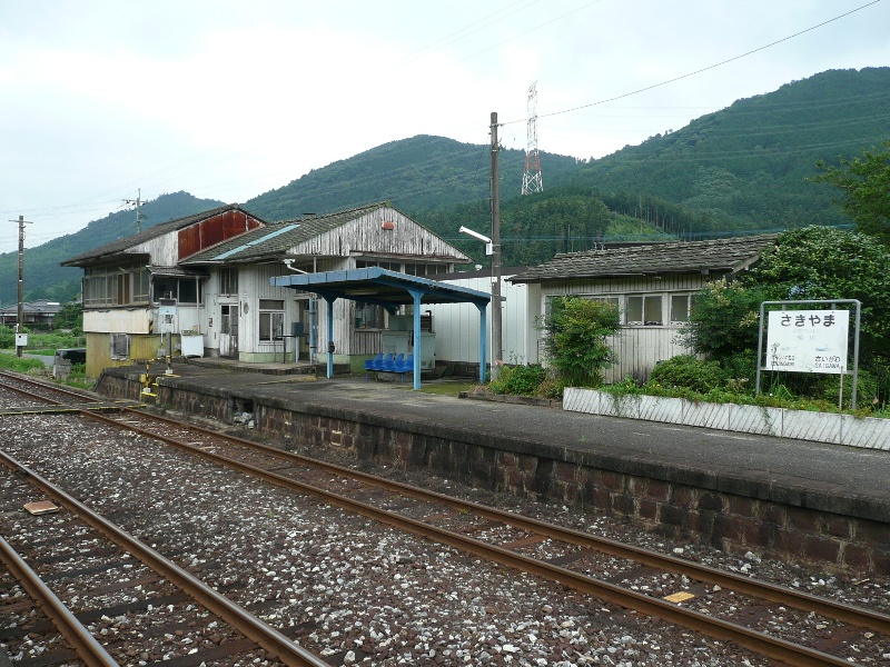 Sakiyama station